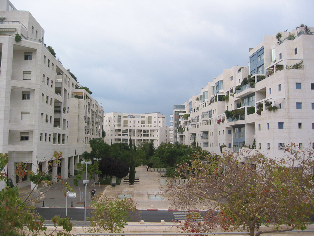 Ha'Mishtala, a neighborhood in north Tel aviv, Israel